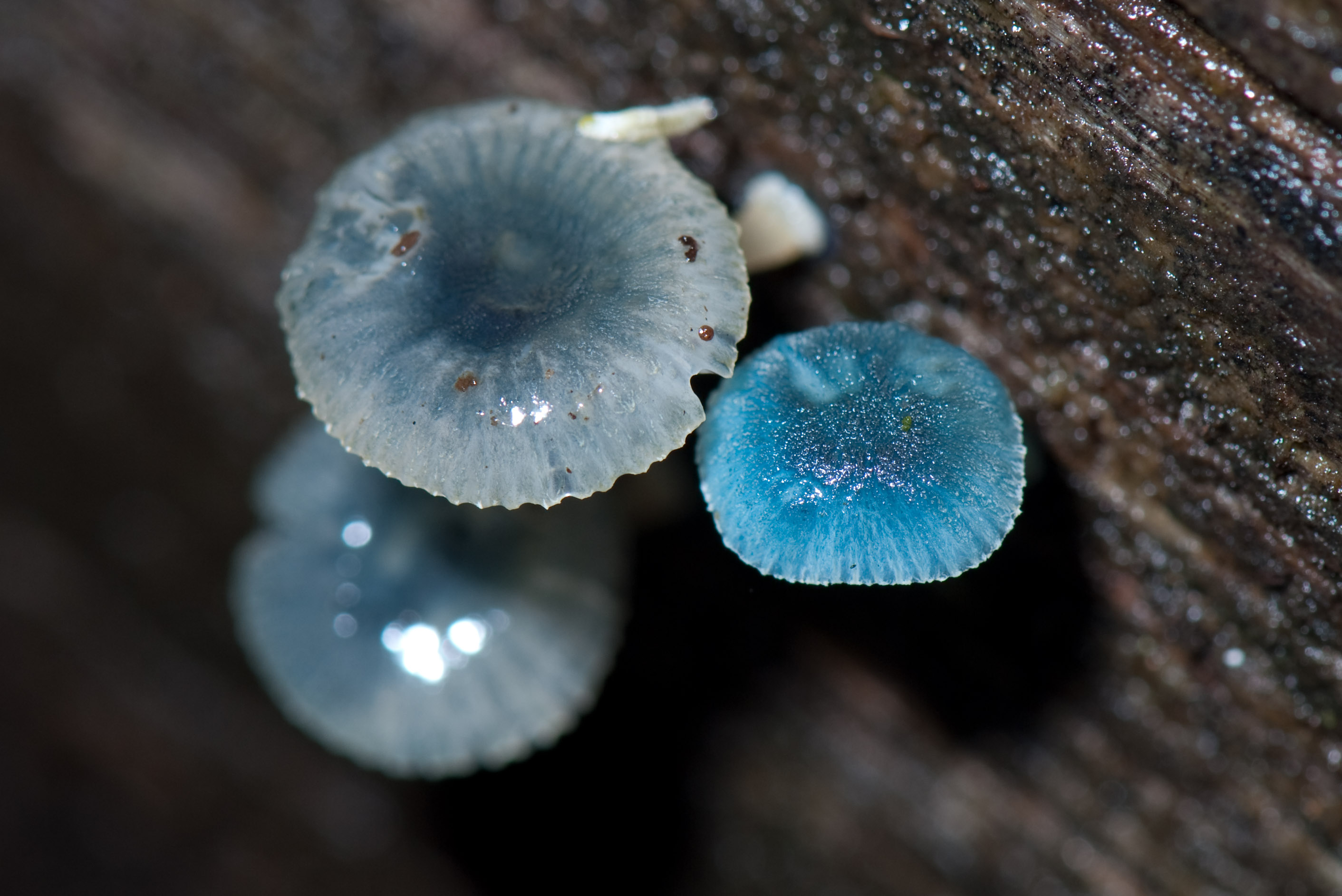 pixie's parasol